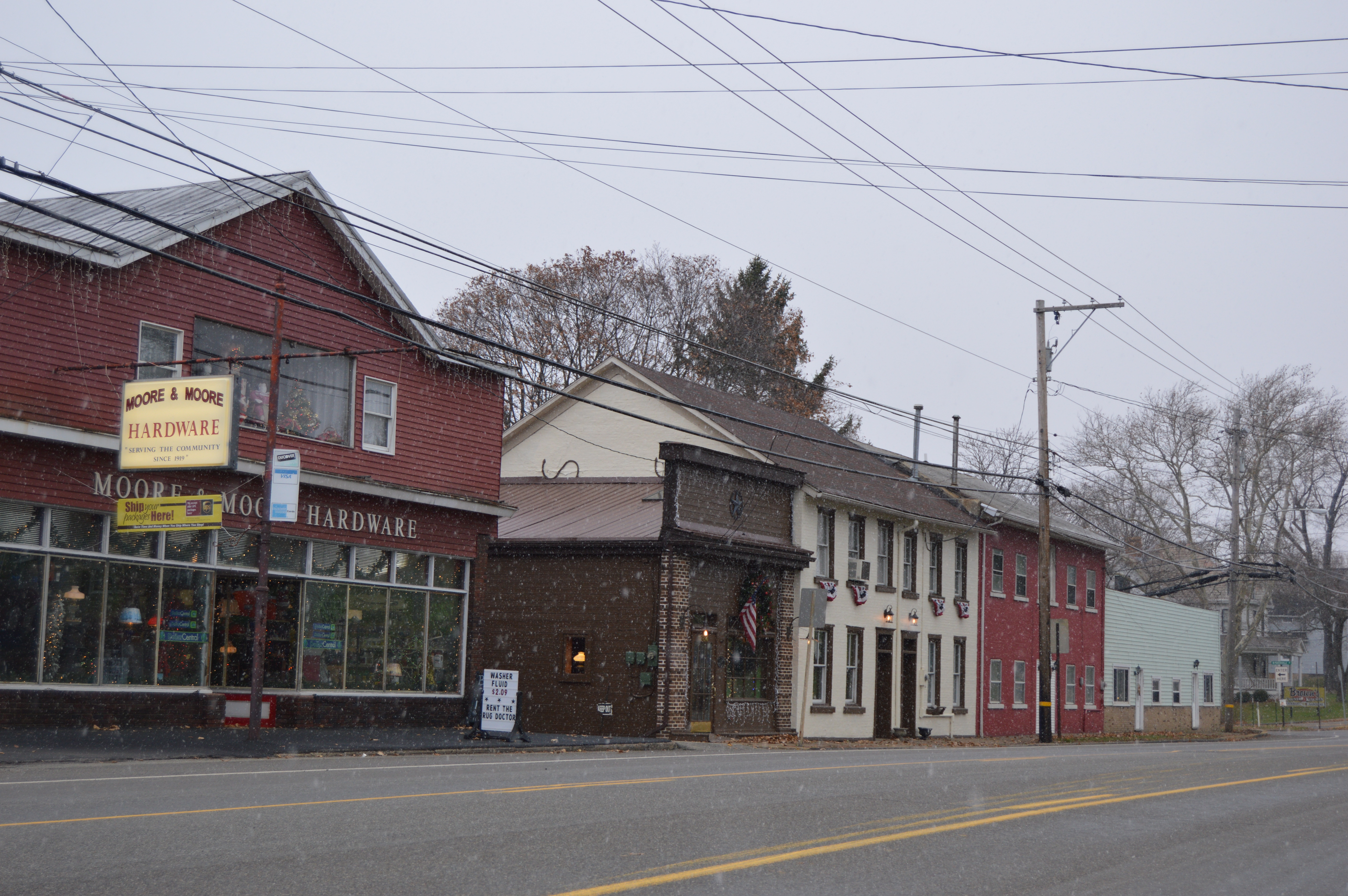 Buildings on the western side of Main Street (U.S. Route 19/Pennsylvania Route 488) in central Portersville, Pennsylvania, United States.